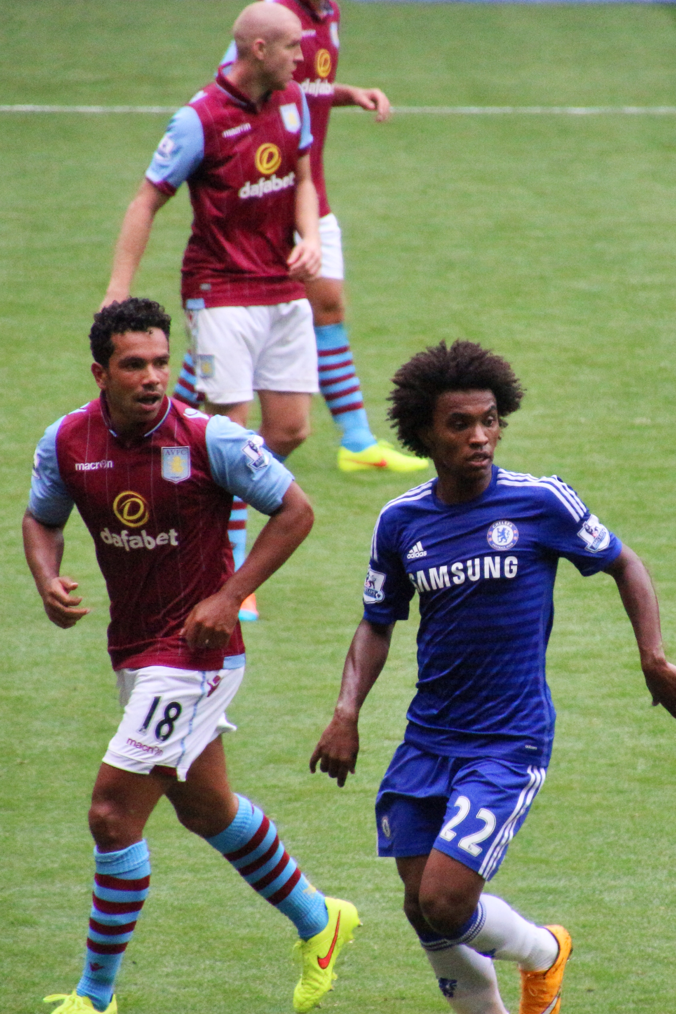 Chelsea 3 Aston Villa 0 Premier League match between Chelsea and Aston Villa at Stamford Bridge on 27 September 2014.